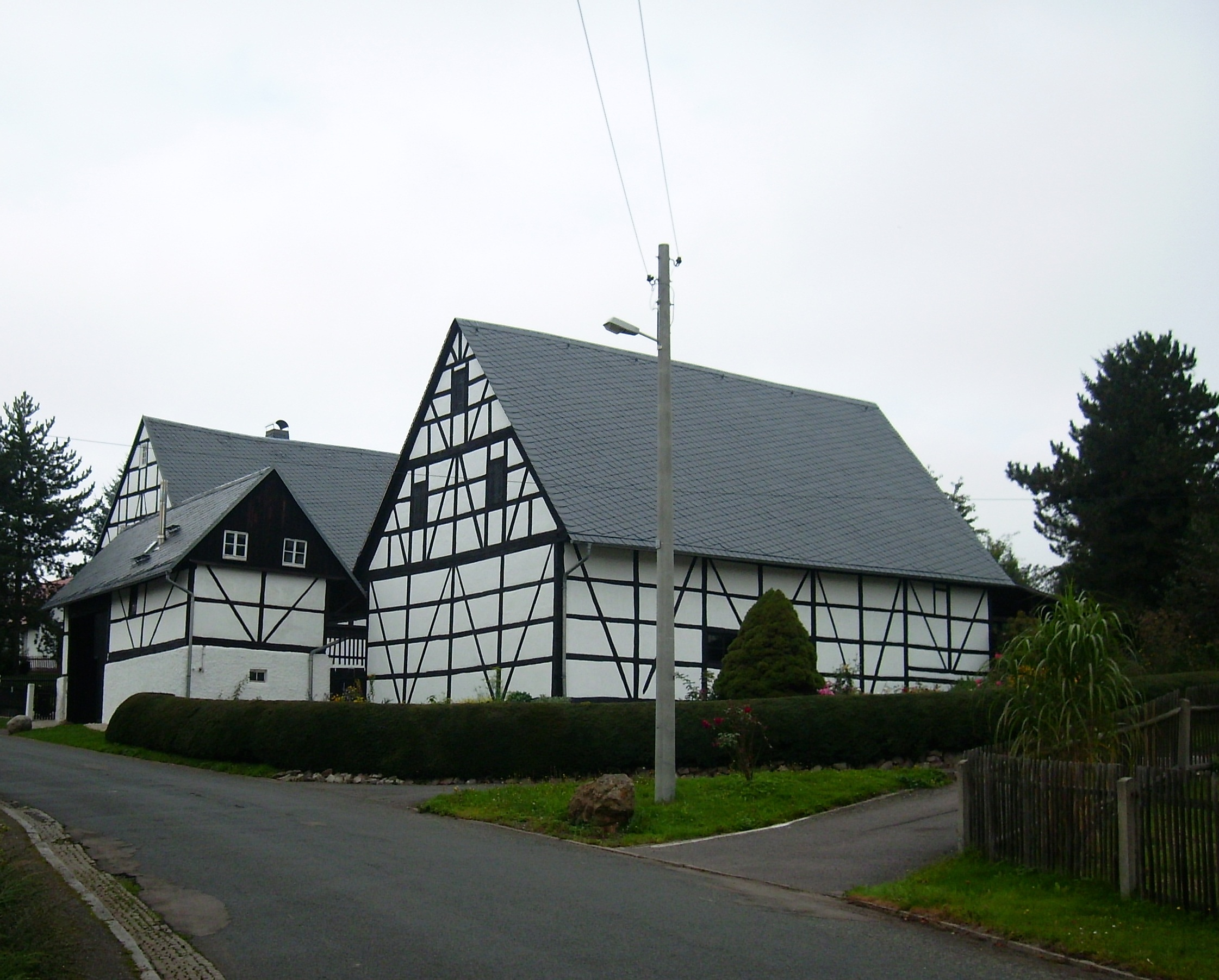 Four-sided farmstead in Höckendorf(Glauchau, Zwickau district, Saxony)